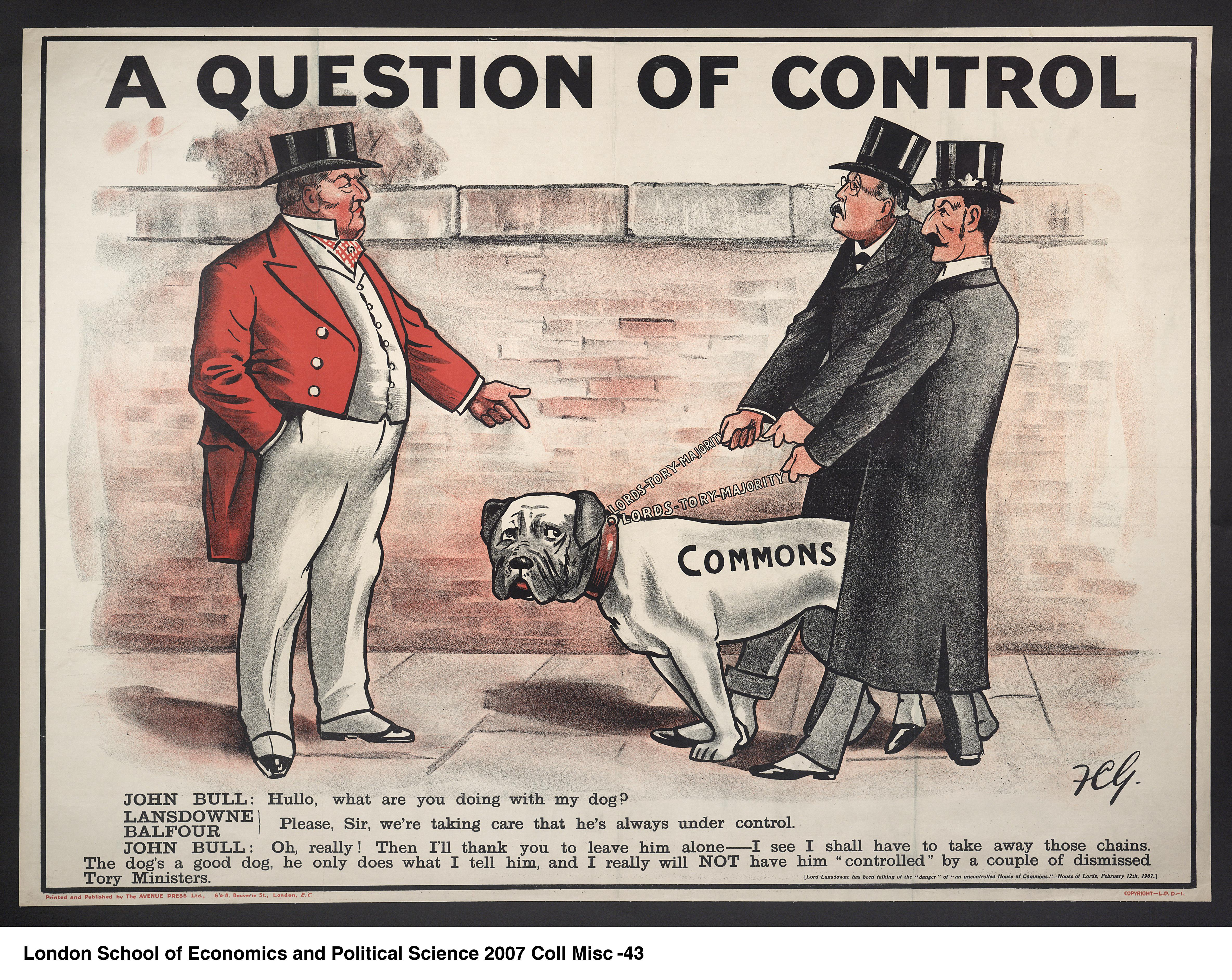 COLL MISC 0519_043 Lithograph in red and black ink on white page, showing John Bull stopping Lansdowne and Balfour in the street, who have a large bulldog representing the House of Commons reined in on a leash called \Lords Tory Majority\".\r\nArtist: H.G\r\nPrinter: Avenue Press Ltd\r\nPublsher: Printer\r\nPlace of Production: London"